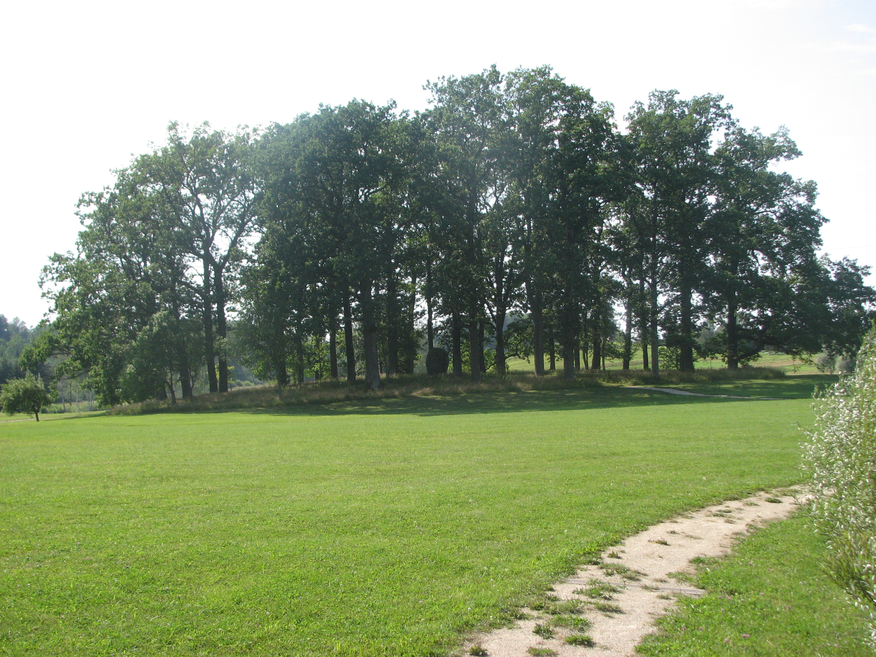 Oak Wood of War of Pühajärv in Pühajärv, Estonia